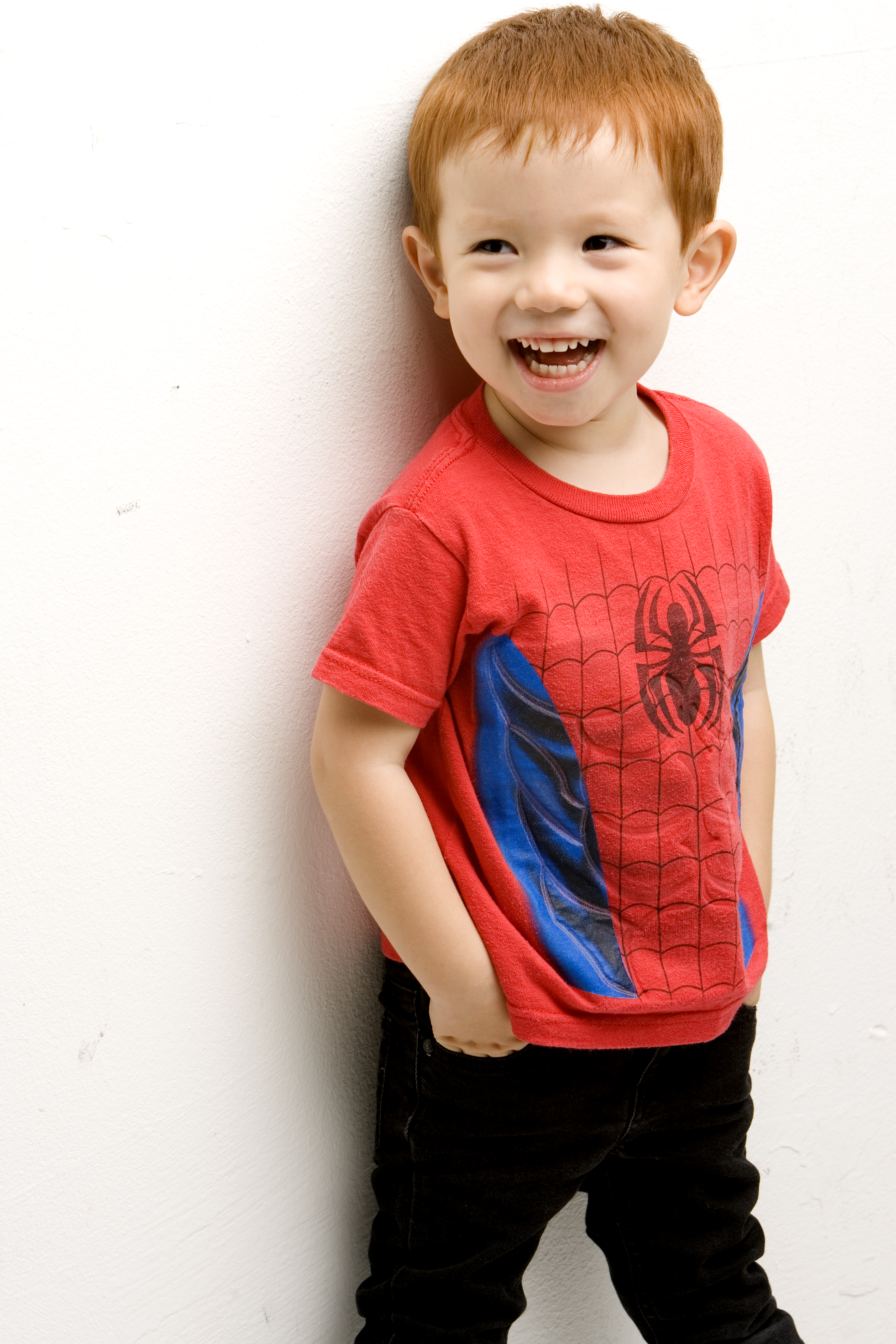 1 of Korea's few redheads-born 2009 Oct 16-Terry W. mom Korean (black hair), dad Canadian (brown hair)